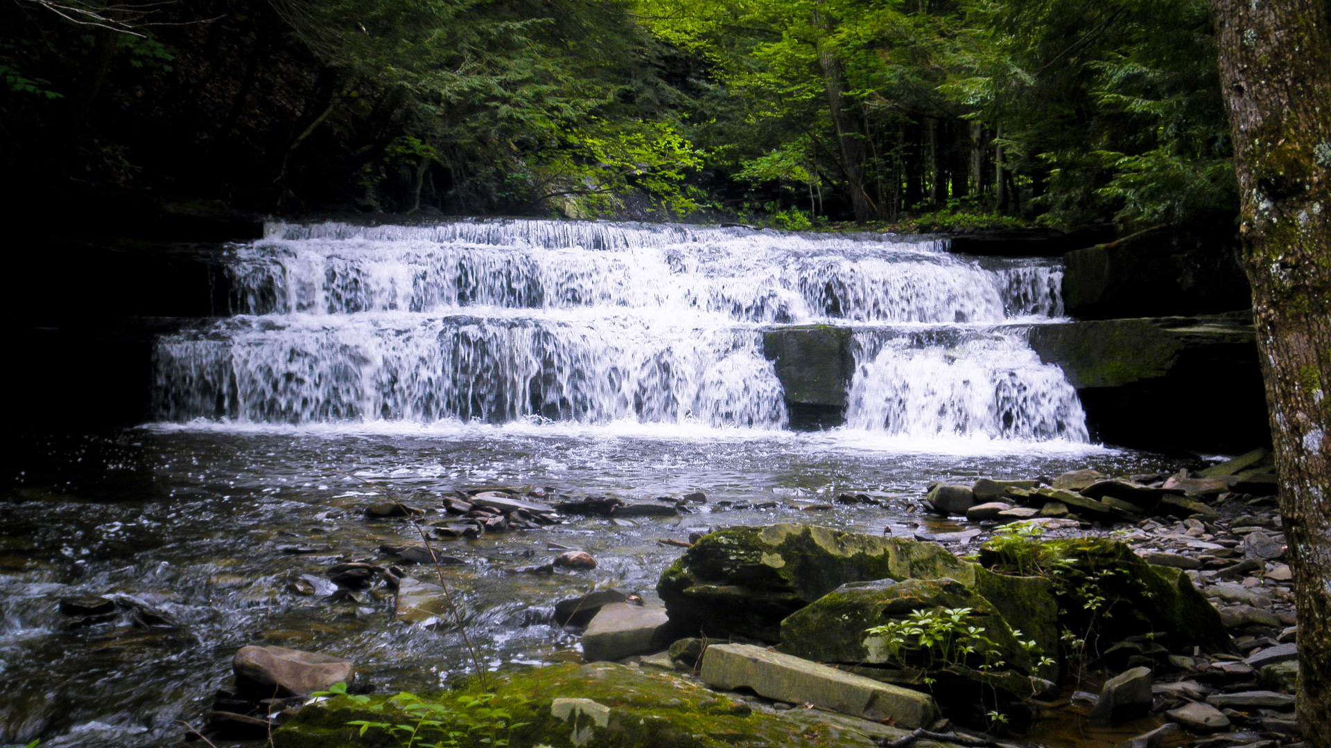 Christman Bird and Wildlife Sanctuary, Delansen, NY. The first waterfall along the trail, around 0.8 miles in.